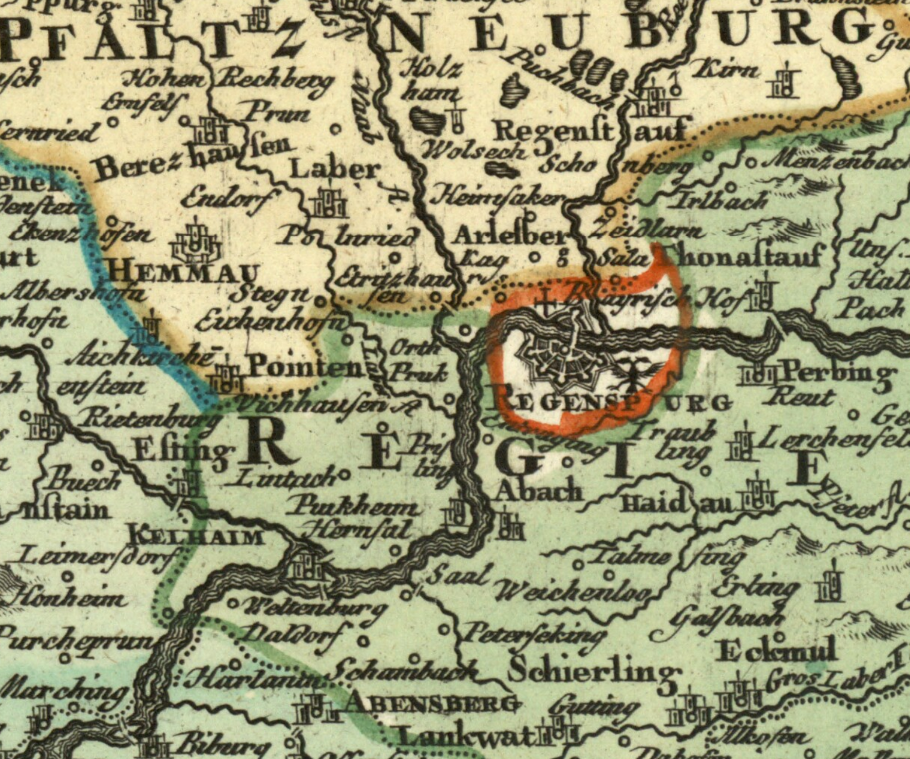 The territory of the Free Imperial City of Regensburg. Cropped from a map of the Bavarian Circle by Johann Baptist Homann published in 1728 by his heirs (Homann Erben). On maps, a black double-headed eagle next to the name of a city indicates its status as a free imperial city. On this map, it looks as if the city's territory extended north of the Danube river to include Stadtamhof (Bayrisch Hof on the map). In fact, that town belonged to the Duchy of Bavaria. Title and other details on the map: Bavariae Circulus et Electorat. in suas quasque Ditiones tam cum Adiacentibus quam insertis Regionibus accuratißime divisus per Io. Baptistam Homannum, Norimbergae 1728